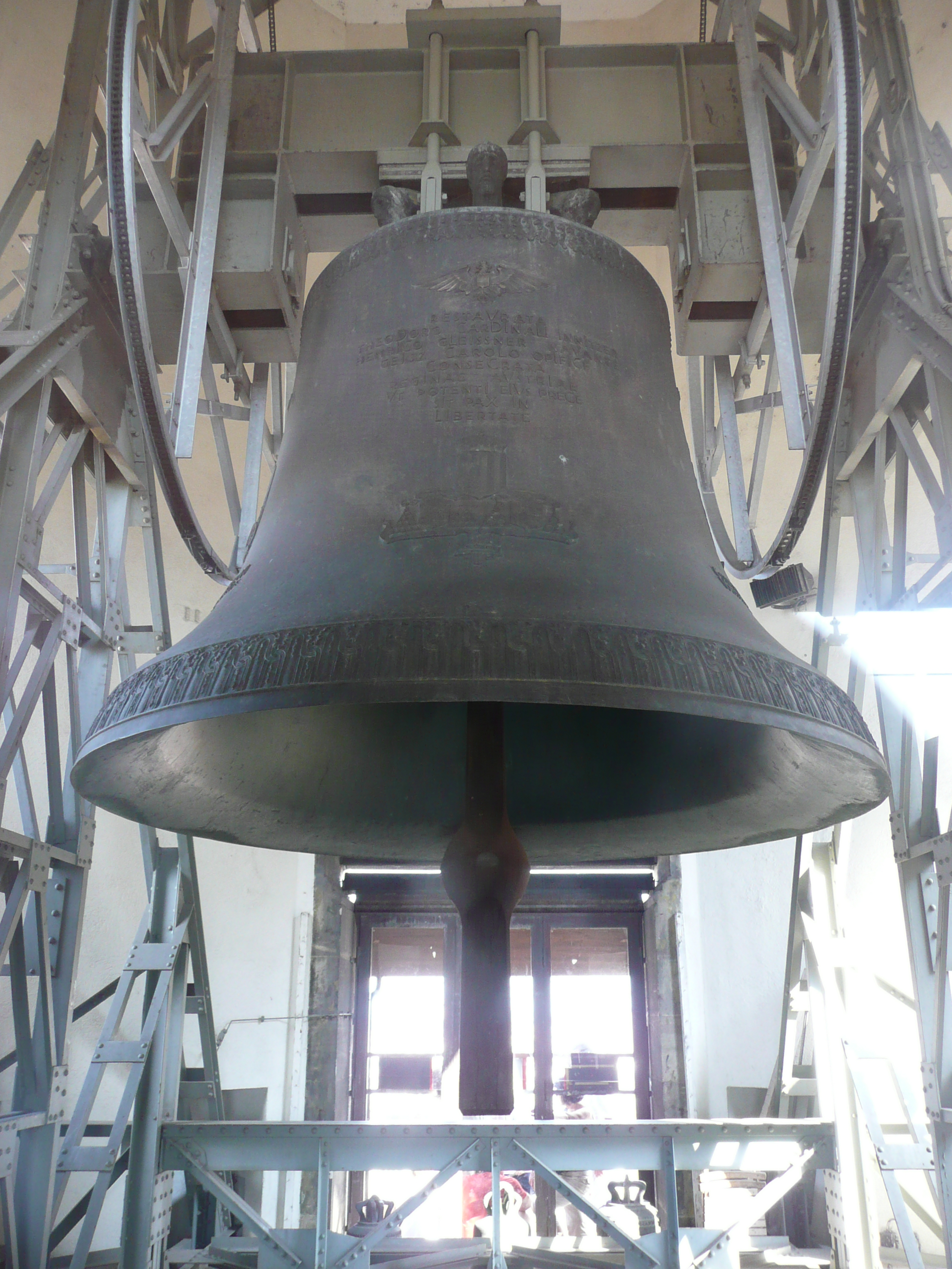 The Pummerin bell, largest one in Austria, at St. Stephen's Cathedral in Vienna. It was cast by the canon-balls of the invading Turks in the 17th century. The bell weighs over 20 tons and rings only for New Year's and other special occasions. This side is from the southwest.